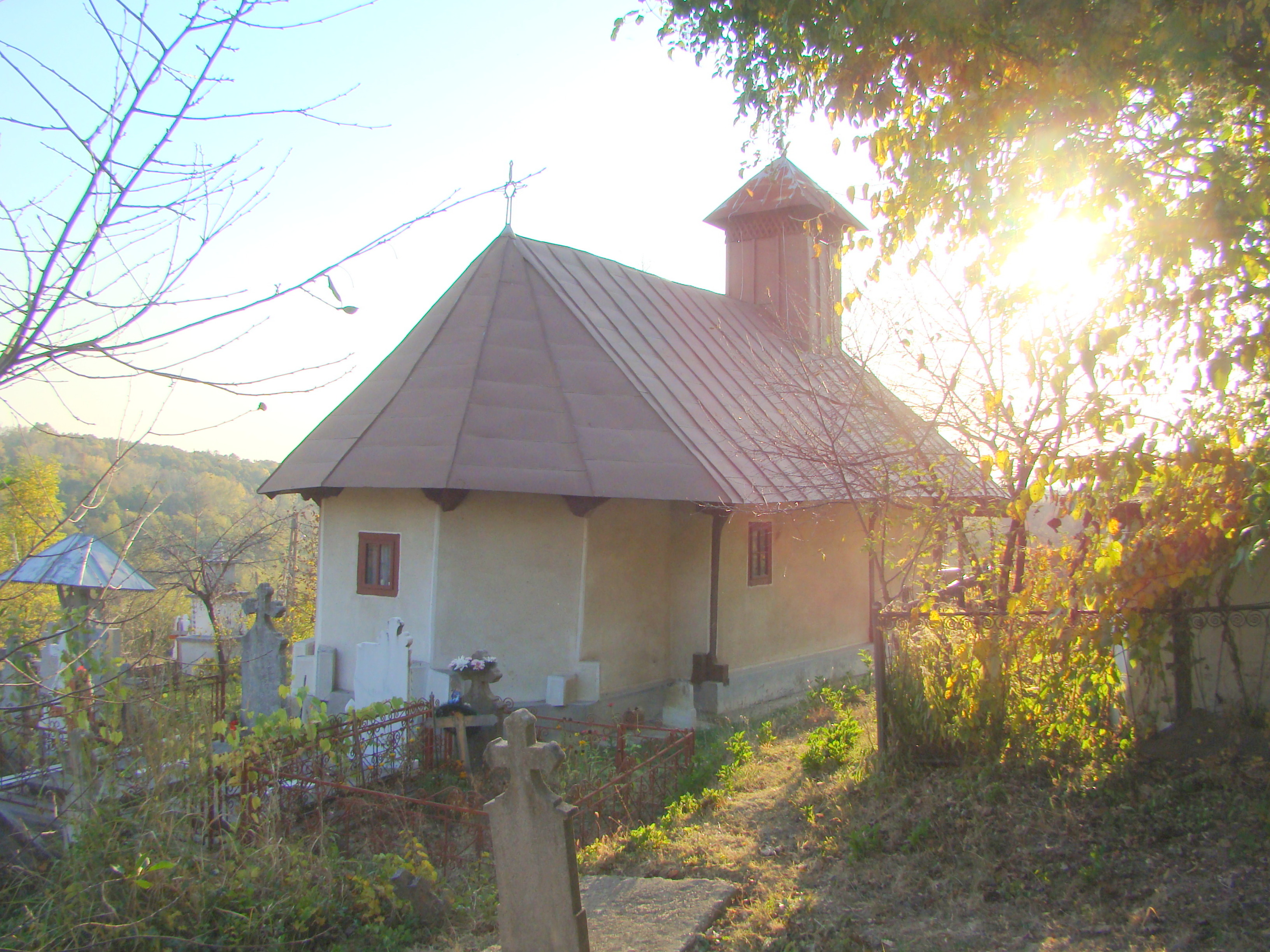 Wooden church in Horăști, Gorj county, Romania